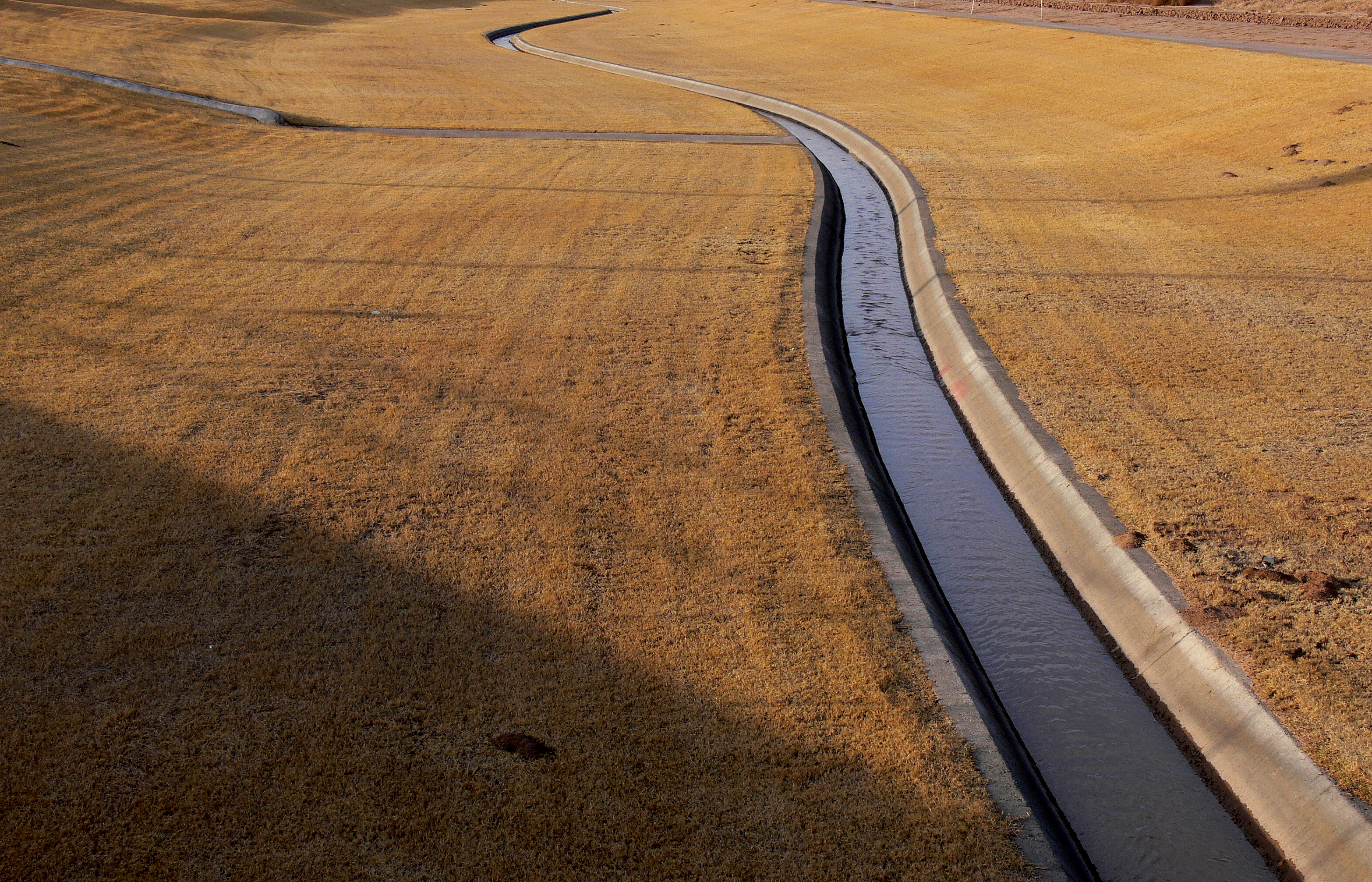 The image represents a drainage channel.